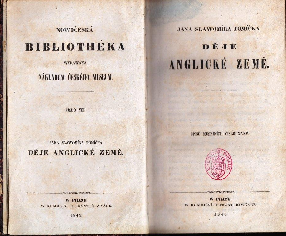 The title page of "History of England" by Jan Slavomír Tomíček (1806 - 1866)